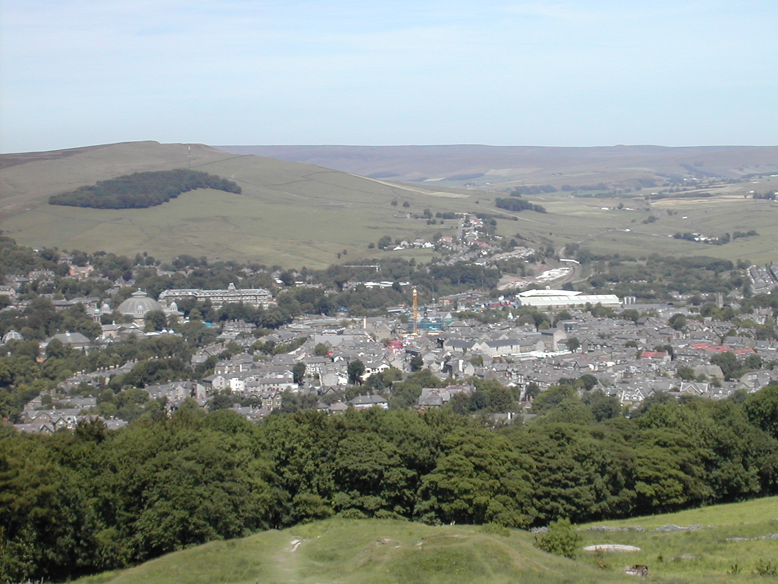 Panoramic view of Buxton, in Derbyshire, England from Solomon's Temple looking northwards